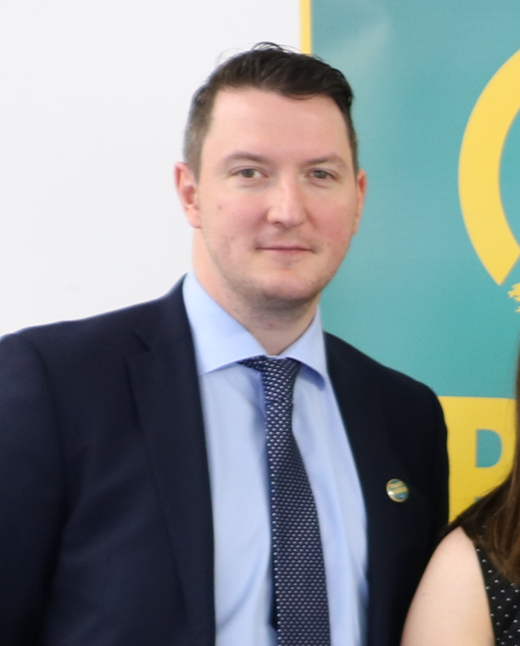 Left to right: John Finucane, Megan Fearon MLA, Ailbhe Smith, Mary Lou McDonald TD, Louise O'Reilly TD, and Jonathan O'Brien TD